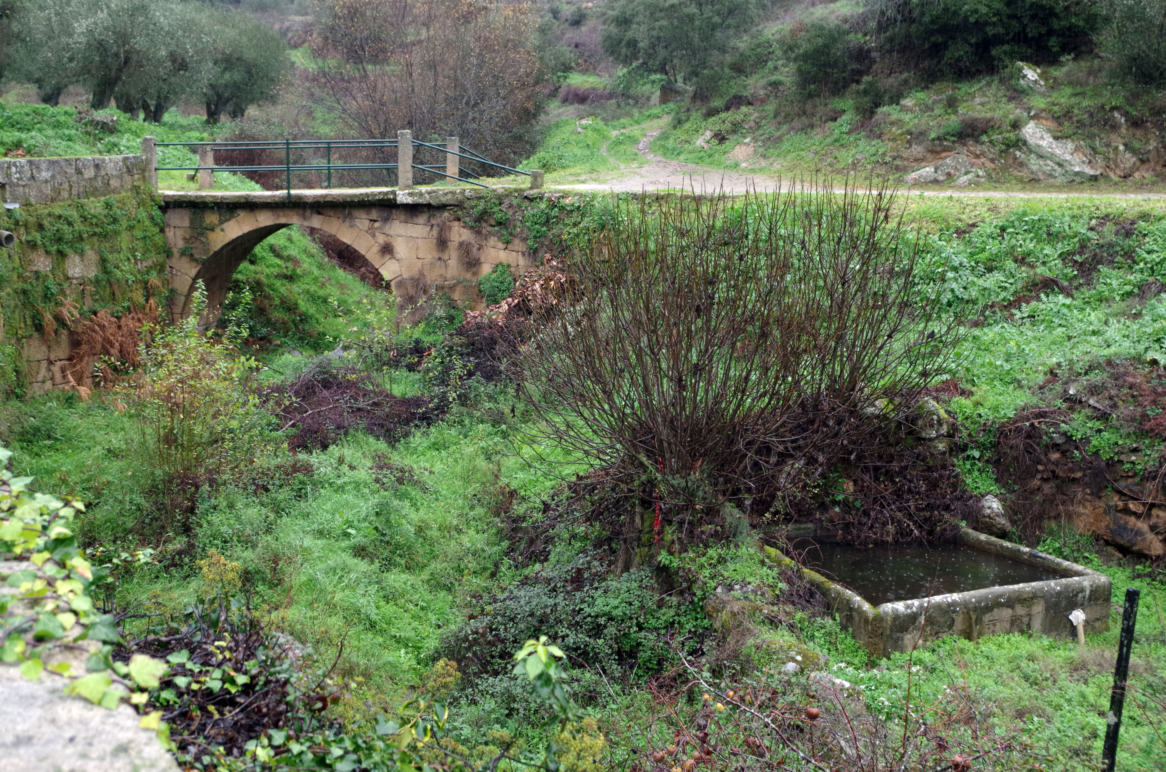 Ancient roman bridge in Longroiva (Guarda, Portugal).